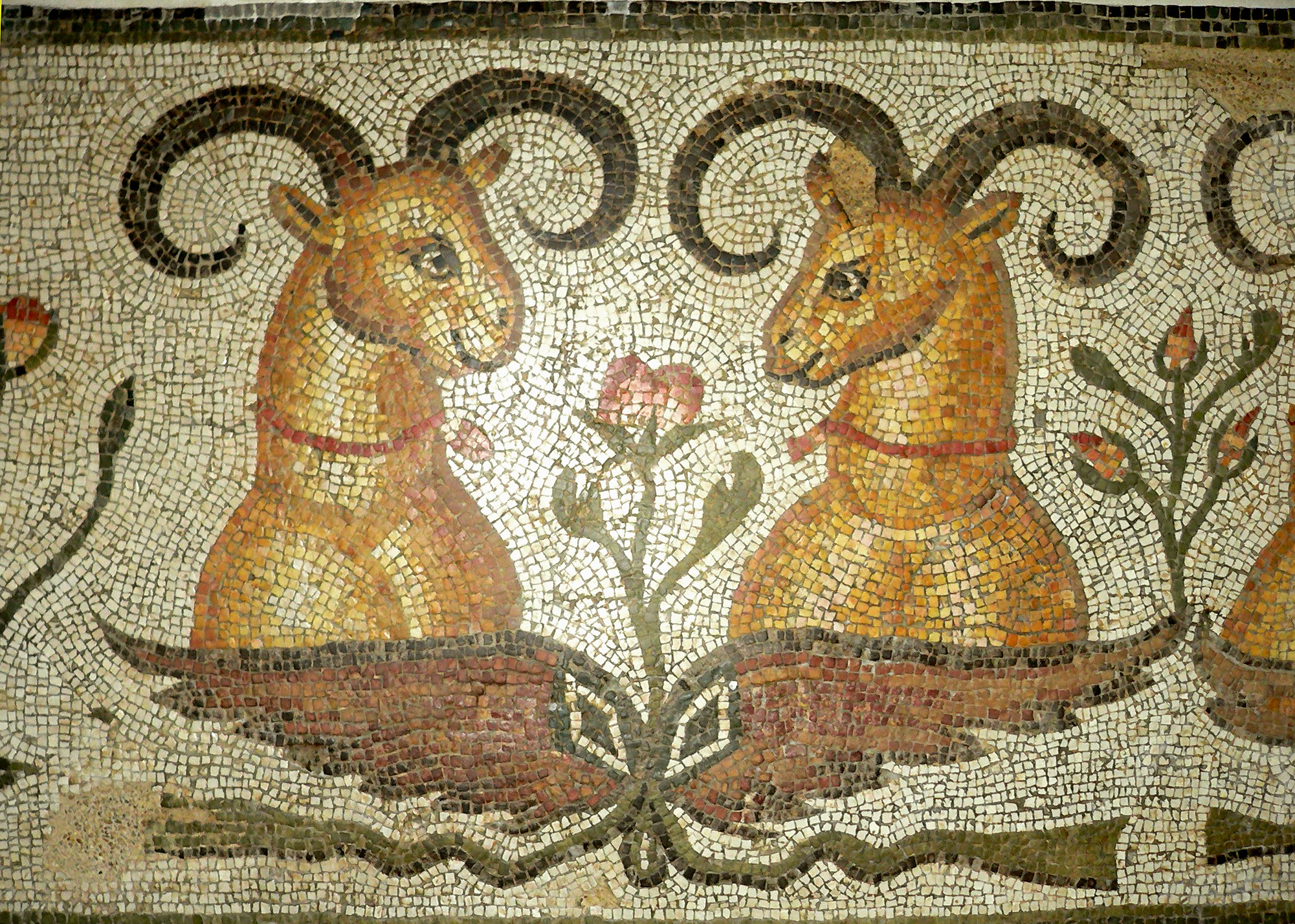 Facing ibex, detail of a scene representing a phoenix with roses. Pavement mosaic (marble and limestone), 2nd half of the 3rd century AD. From Daphne, a suburb of Antioch-on-the-Orontes (now Antakya in Turkey).